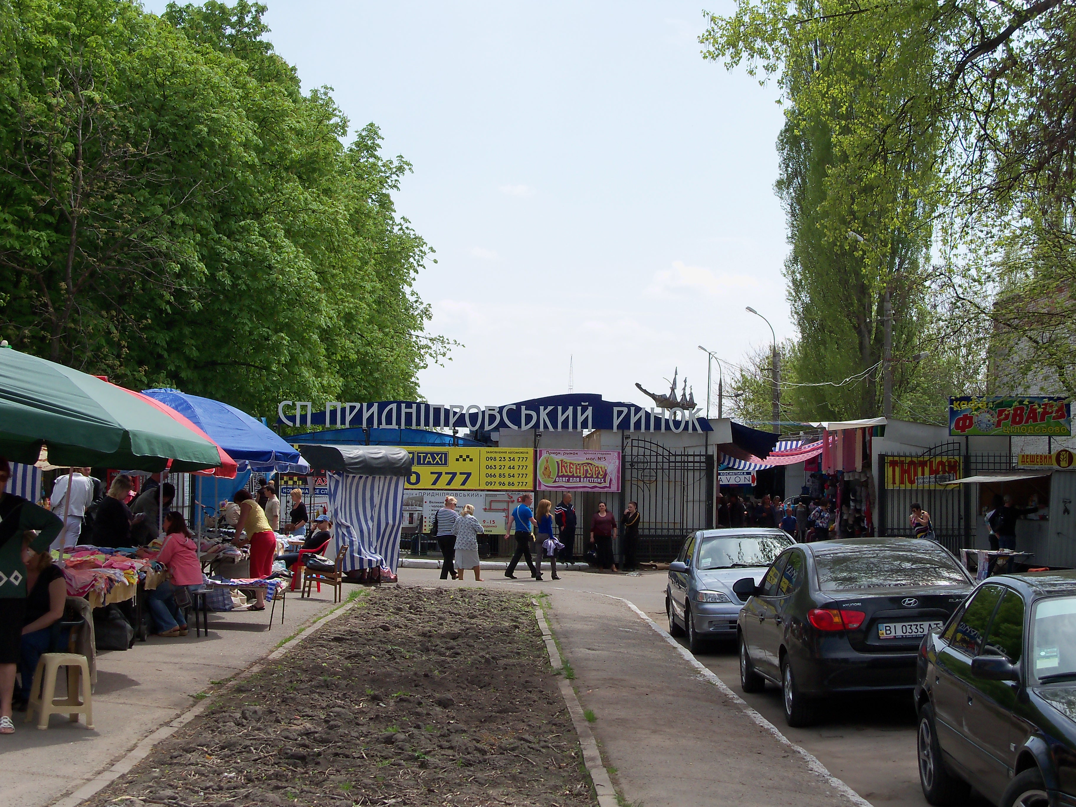 Prydniprovskyi market in Kremenchuk